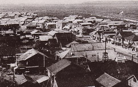 View of Esutoru(Uglegorsk Углегорск)